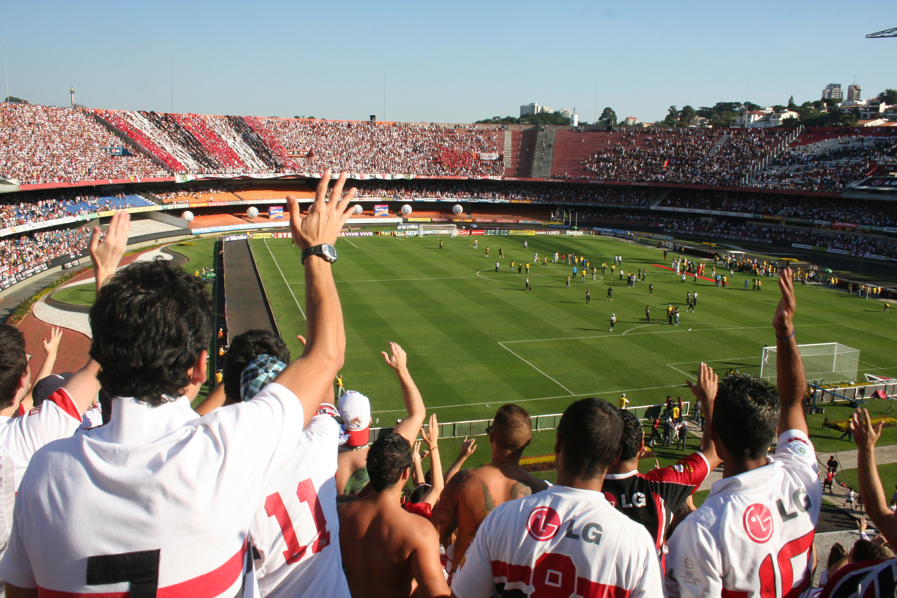 second semifinal match of Paulista Championship of 2009 between São Paulo and Corinthians in Cícero Pompeu de Toledo stadium, known as Morumbi. One of the most important brazilian derbies. The game ended 0 to 2. View of the São Paulo supporters.